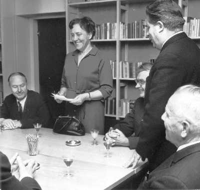 Hertta Kuusinen speaks at a meeting with a deputation from Soviet.